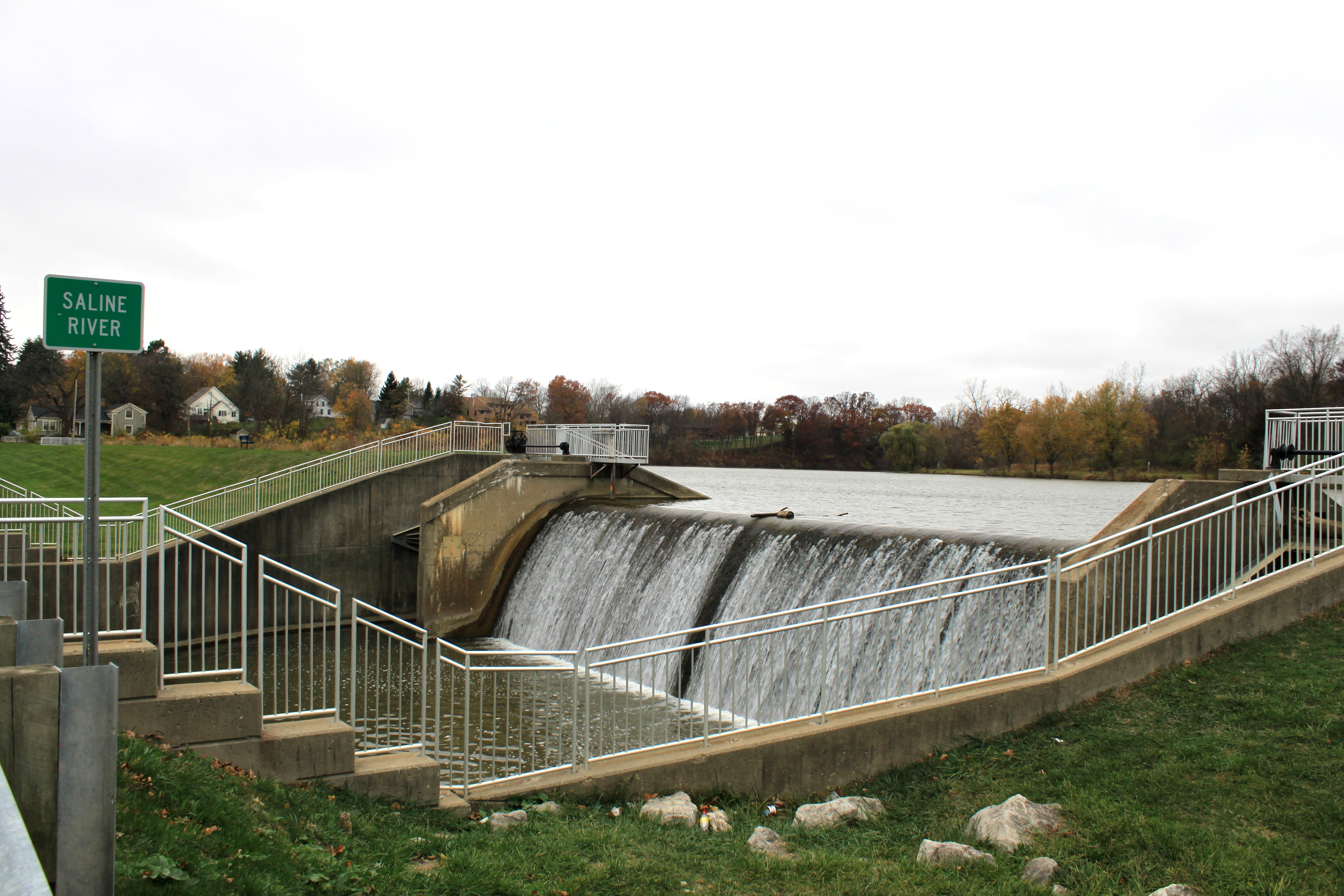 Saline River Dam, Mill Pond Park, across the road (US 12/W. Michigan Avenue) from Curtiss Park, Saline, Michigan.